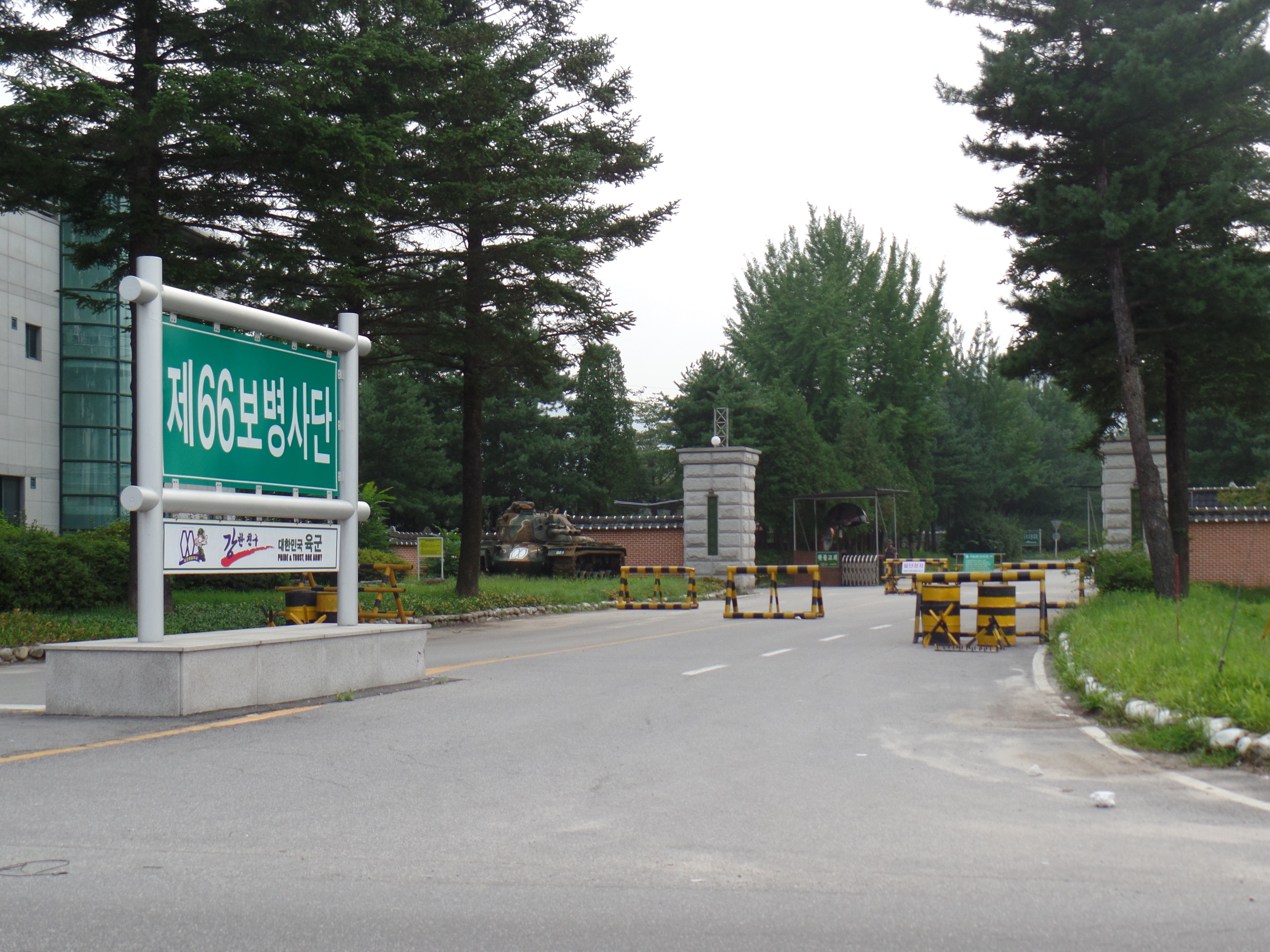 Main gate of Republic of Korea Army 66th Infantry Division Headquarters